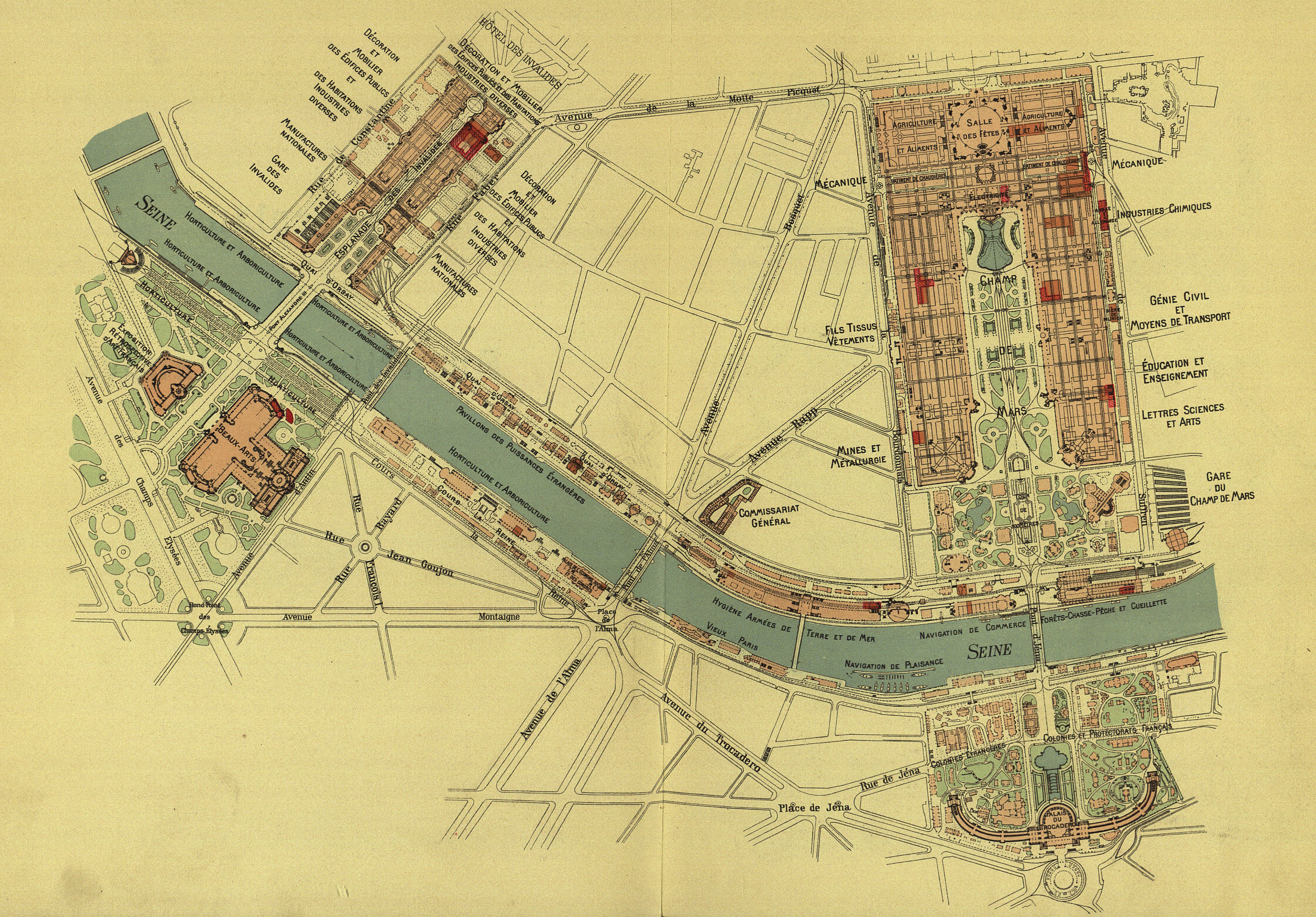 Map of 1900 Paris World Fair in Weltausstellung in Paris 1900 by Otto Witt.